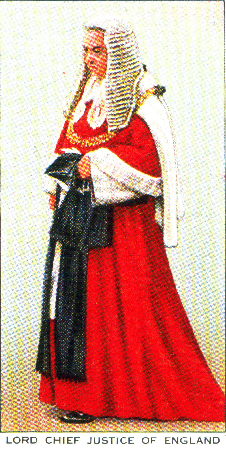 Player's cigarettes. Coronation series, ceremonial dress